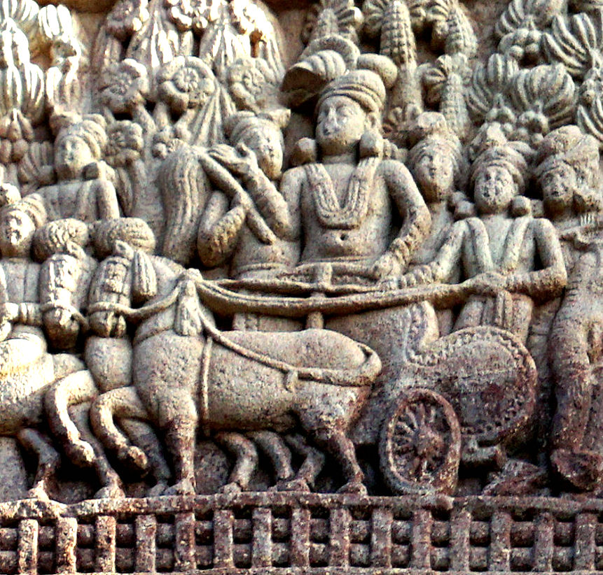 Ashoka's visit to the Ramagrama stupa Sanchi Stupa 1 Southern gateway. For interpretation see: Ashoka in Ancient India by Nayanjot Lahiri, Harvard University Press, 2015 p.295-296